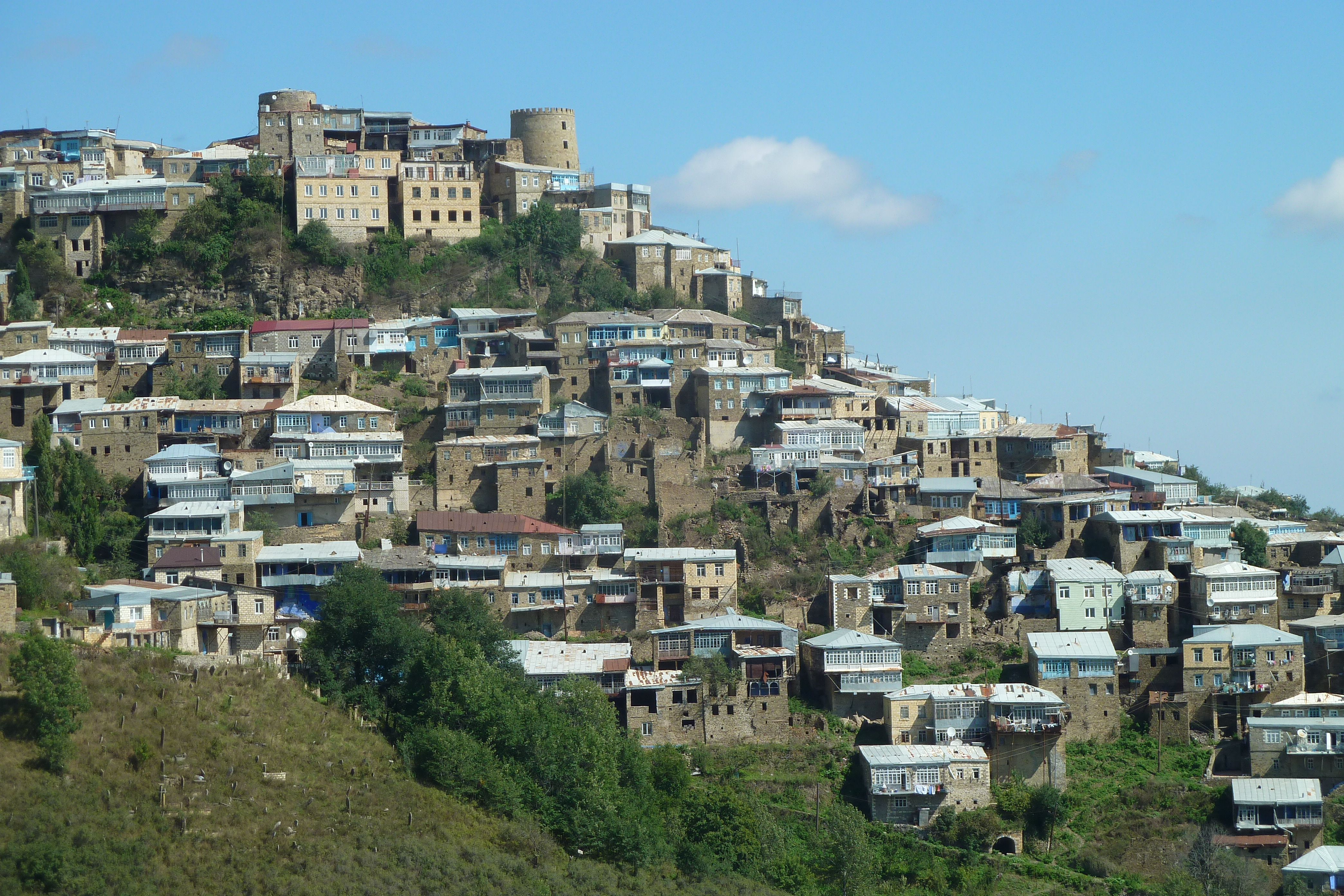 The aul (village) of Kubachi in Dagestan, Southern Russia. View of the older part of the village with it's restored tower.